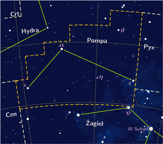 Antlia constellation. Legenda[edit] Gwiazdy zostały oznaczone jasnymi kółkami, których promień powiązany jest z ich obserwowaną jasnością, a kolor pokazuje barwę światła danej gwiazdy. Jasnoszarym tekstem oznaczono polskojęzyczne nazwy gwiazdozbiorów bądź, w przypadku braku miejsca, skróty ich nazw łacińskich. Purpurowo opisane zostały nazwy lub oznaczenia gwiazd oraz innych obiektów. Białe okręgi (lub elipsy) pokazują rozmiary niektórych obiektów (np. galaktyk lub gromad otwartych) Granice gwiazdozbiorów zaznaczone są przerywaną, jasnożółtą linią, a granice aktualnie prezentowanego gwiazdozbioru - linią jasnopomarańczową. Linie łączące poszczególne gwiazdy w obrębie gwiazdozbiorów są koloru zielonego. Drogę Mleczną ukazano jako zmiany koloru tła od ciemnego granatu do jasnego błękitu. Czerwoną linią przerywaną oznaczona jest ekliptyka. Białym tekstem opisane zostały większe powierzchniowo obiekty takie, jak Obłoki Magellana, czy gromada galaktyk w Pannie. Linie ukazujące kształty gwiazdozbiorów zostały dobrane arbitralnie, jednak z akcentem na spójność z dostępnymi źródłami polskojęzycznymi, oraz, w niektórych przypadkach, tak, by bardziej odpowiadały nazwie gwiazdozbioru. Wyznaczone zostały one na podstawie następujących źródeł: książki "Niebo na dłoni" Eduarda Pitticha i Dusana Kalmancoka, książki "Nasze gwiazdozbiory" Josipa Kleczka, obrotowej mapy nieba opracowanej przez PTMA Kraków oraz programów SkyGlobe i Celestia.